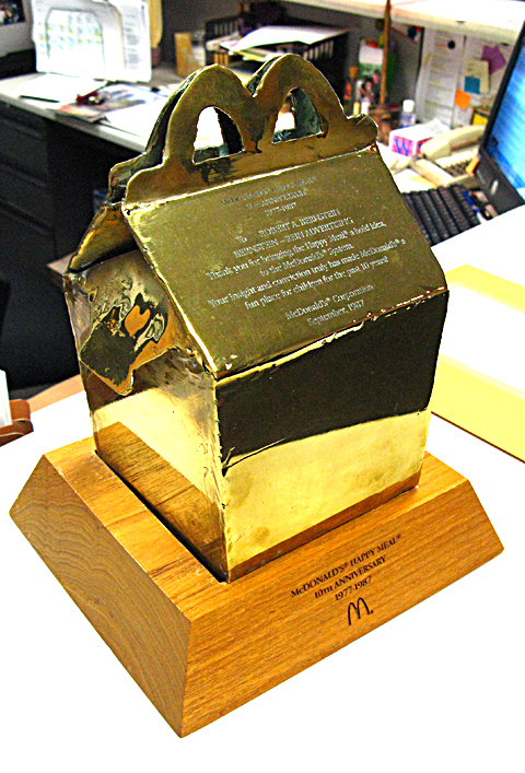 Picture of entire bronze Happy Meal presented to Robert Bernstein on 10th anniversary of Happy Meal. Award text commemorates Robert as creator of the Happy Meal